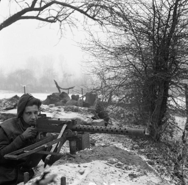 The Campaign in North West Europe 1944-45 A soldier from 1st Battalion, the Rifle Brigade, 7th Armored Division, manning a .30-cal machine gun, 31 December 1944.